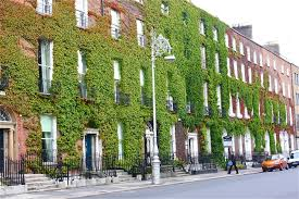 Georgian façade of Merrion Square,Dublin